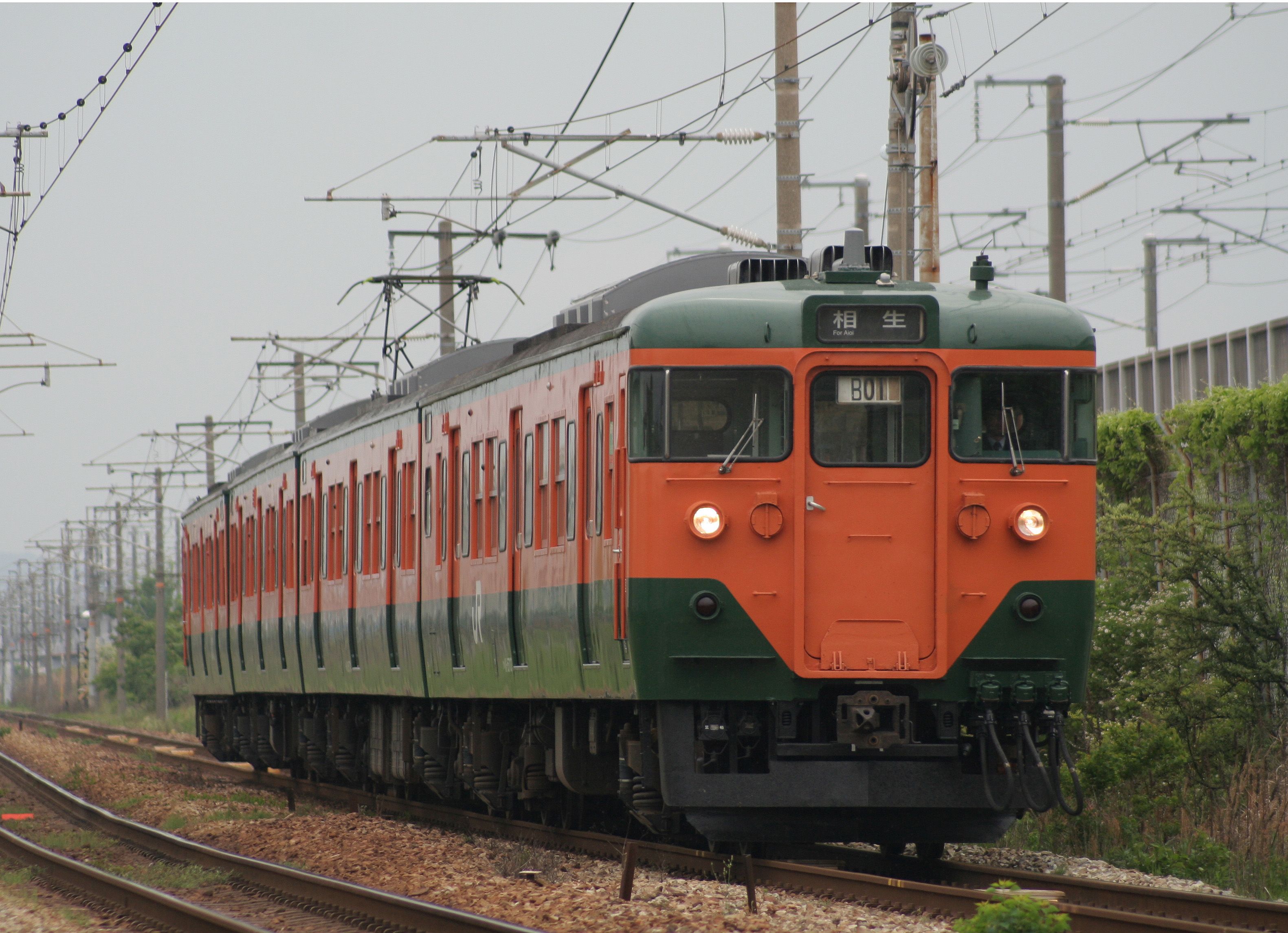 West Japan Railway 113 series B01